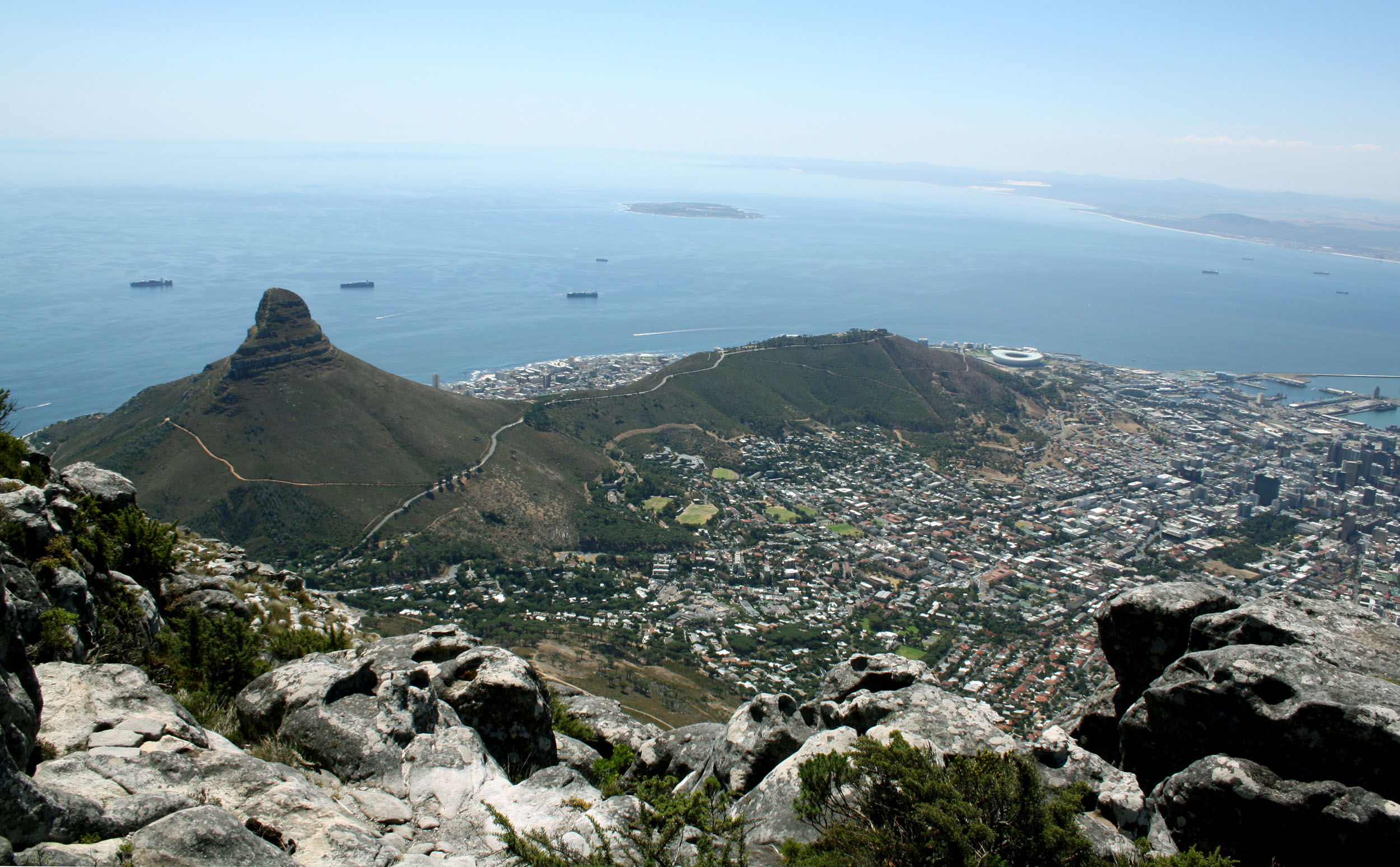 Lion's Head & Signal Hill, as seen from Table Mountain, Cape Town. March 2011. Photo by Winstonza talk